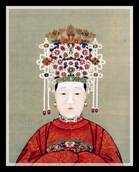 Portrait of Empress Xiaojing of Ming Dynasty China